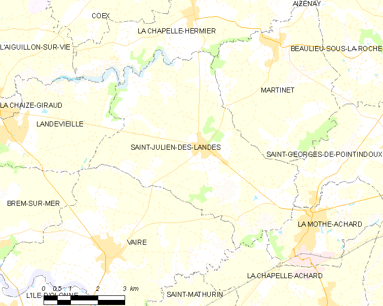 Map of French municipality Saint-Julien-des-Landes